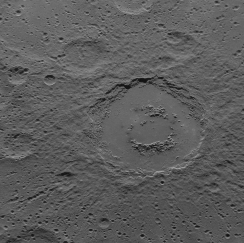 Oblique view of Alver crater on Mercury. MESSENGER Narrow Angle Camera. North is at bottom. Emission Angle: 35.4 Incidence Angle: 67.1 Latitude: -67.0 Longitude: 75.2 Phase Angle: 102.5